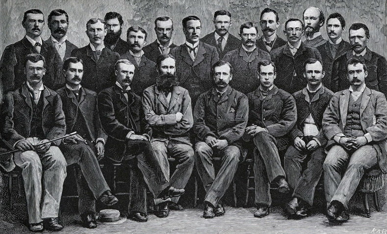 Members of the Lady Franklin Bay Expedition prior to embarking in 1881. The image of Dr. Octave Pavy was added as he joined the expedition in Greenland. Three other portraits were also altered as the team was changed after the original portrait was taken.